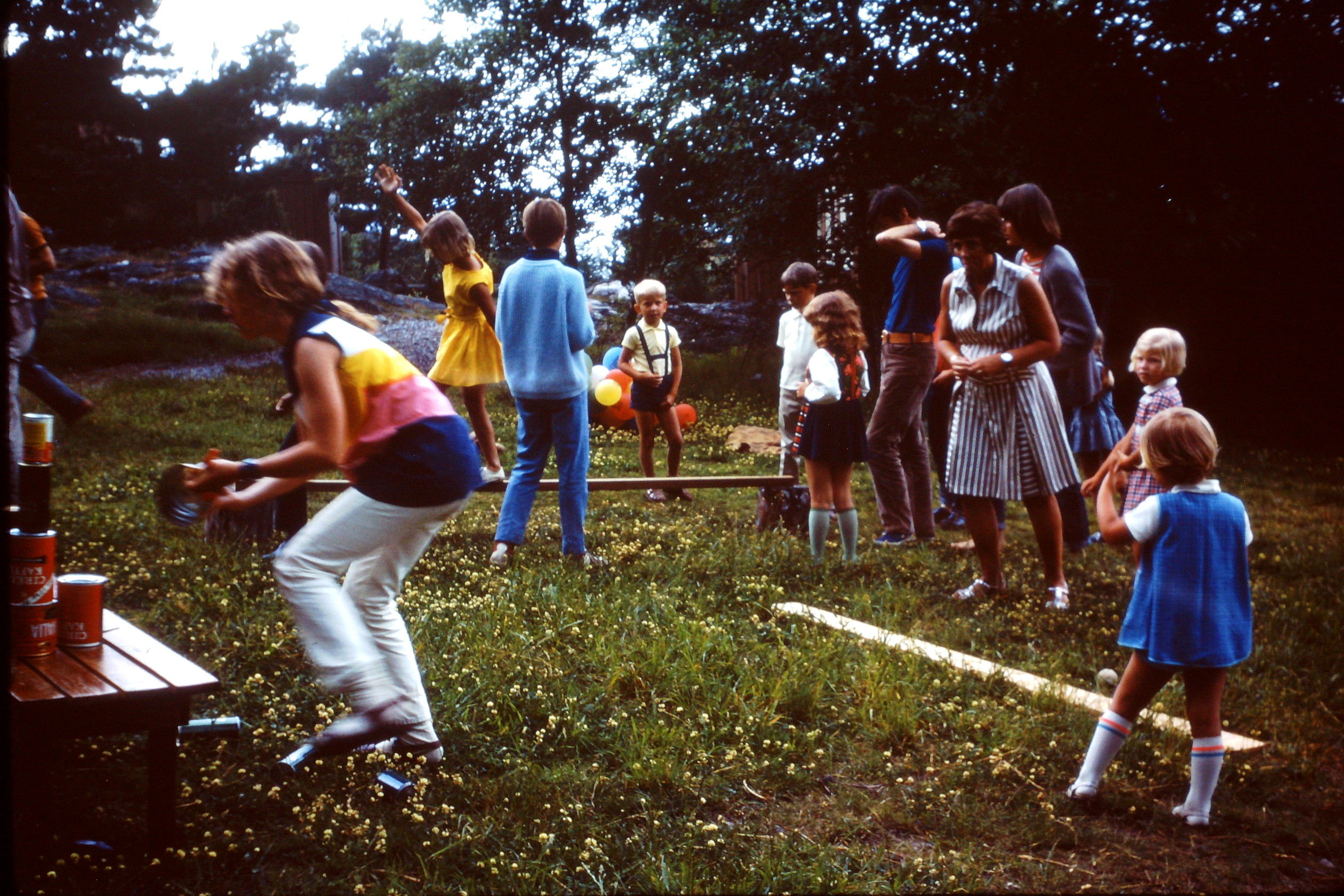 Midsummer celebrations at Årsnäs, which was started in 1963 as an intentional community on the west coast of Sweden, near Kode. The ownership of the 15 houses has since passed on through generations among the founding families. The community celebrates Midsummer yearly, starting by dances around the Maypole in the early afternoon, followed by the houses competing in games with different tasks each year, but often including e.g. nail hammering, log balancing, and darts. In the evening there is a dinner at the dance floor by the meadow including the year's first potatoes, soused herring and pickled herring, chives, sour cream, the first strawberries of the season, as well as beer and snaps for the grown-ups. All these images are scanned diafilms originally taken by Karin Aasma and Felix Aasma.